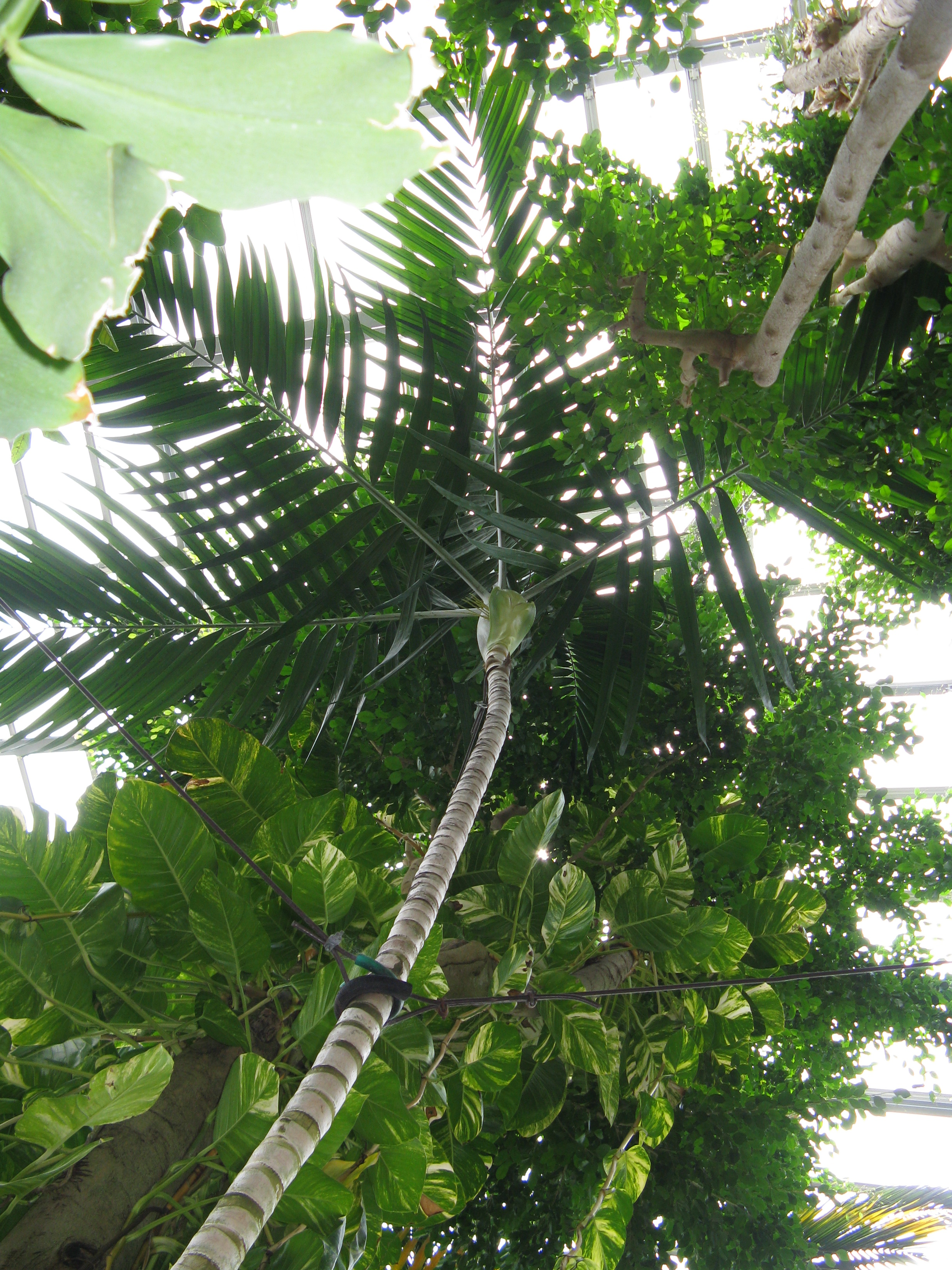 Scientific name: Dictyosperma album, Place: Sakuya Konohana Kan, Osaka, Japan